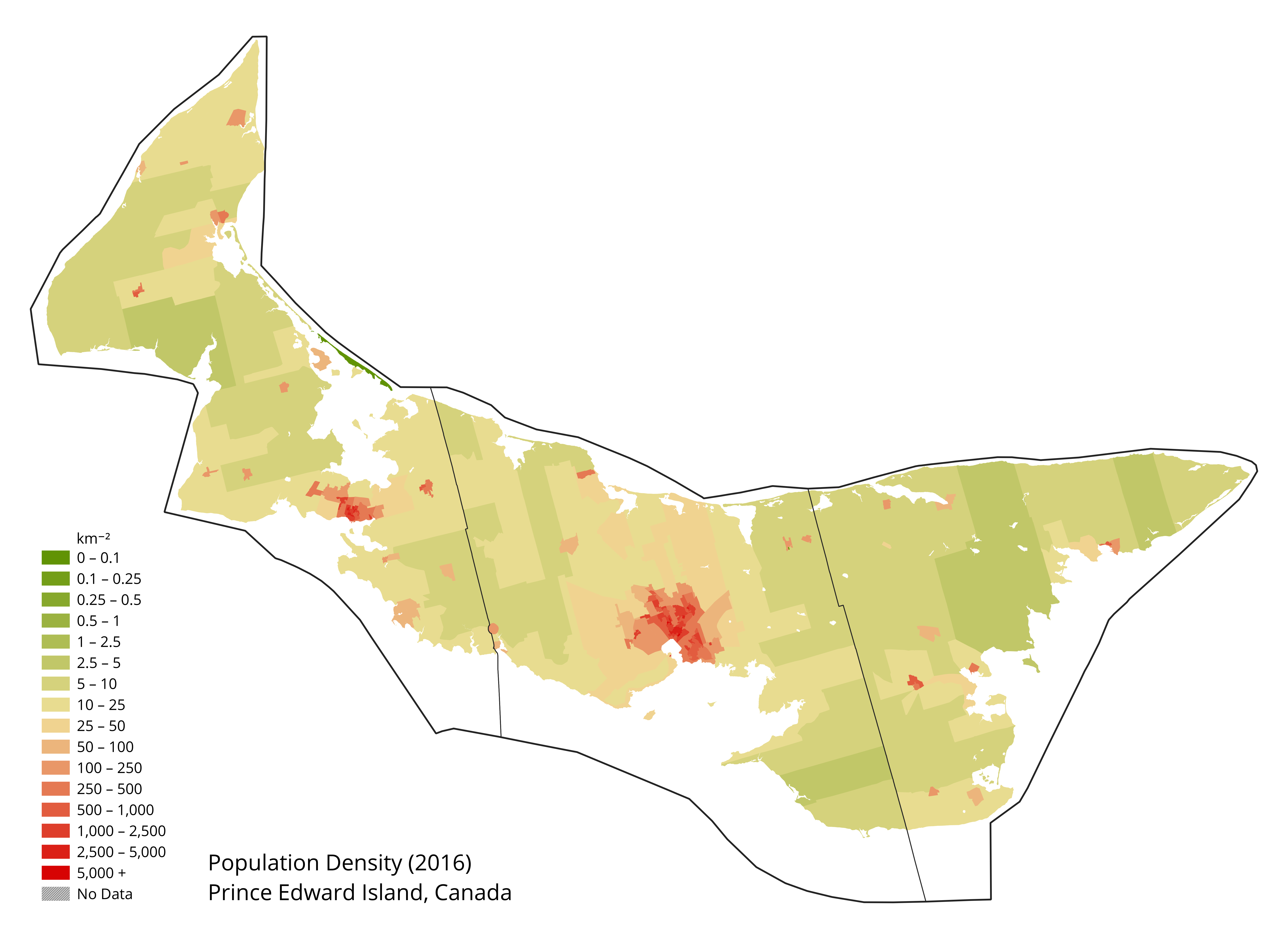 Population density map of Prince Edward Island, Canada. Boundary open data and final counts from Canadian 2016 Census accessed on April 22 2018. Waterbodies from WWF HydroLAKES database.